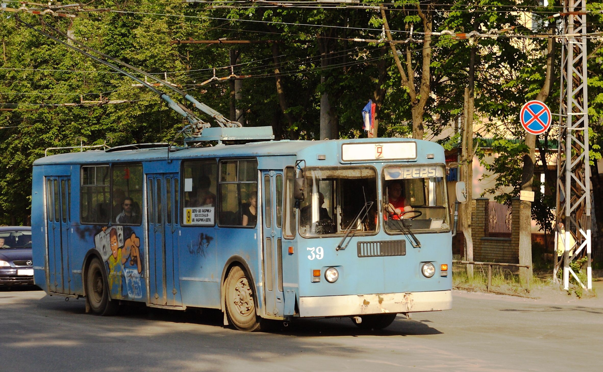 ZiU-682-G-012 trolleybus # 39 in Kovrov.